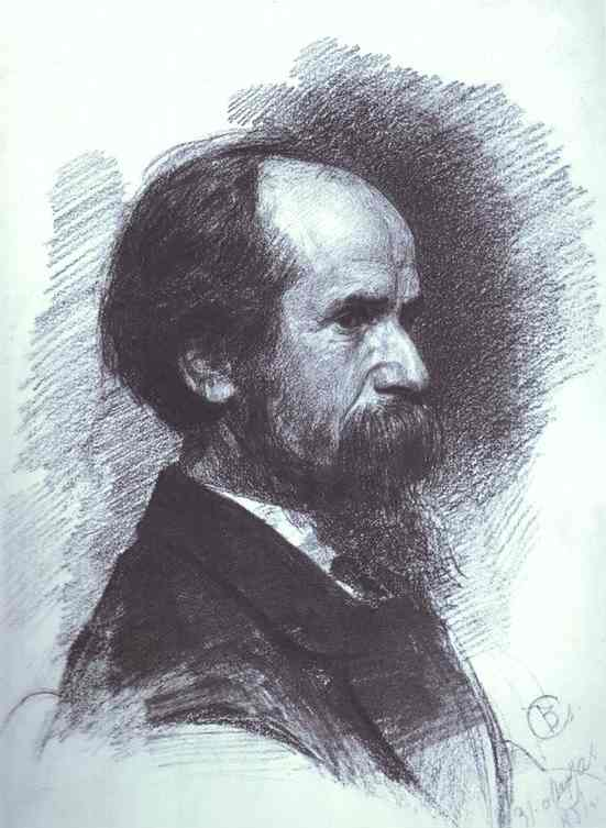 Portrait of the Artist Pavel Tchistyakov. 1881. Italian pencil on paper. The Tretyakov Gallery, Moscow, Russia.